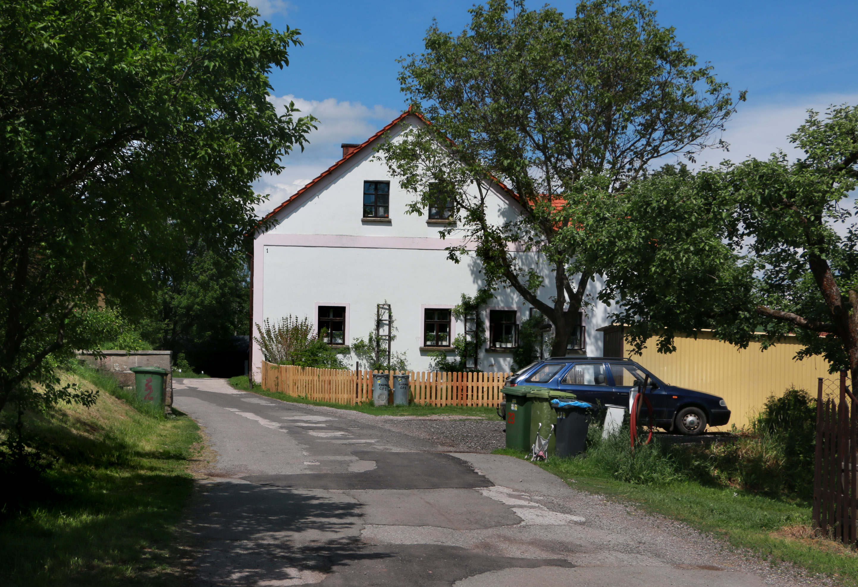 House No 1 in Ždírnice, part of Horní Olešnice, Czech Republic.